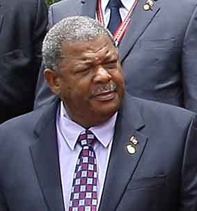 Prime Minister of Antigua and Barbuda Baldwin Spencer at the 5th Summit of the Americas in Port-of-Spain, Trinidad and Tobago.